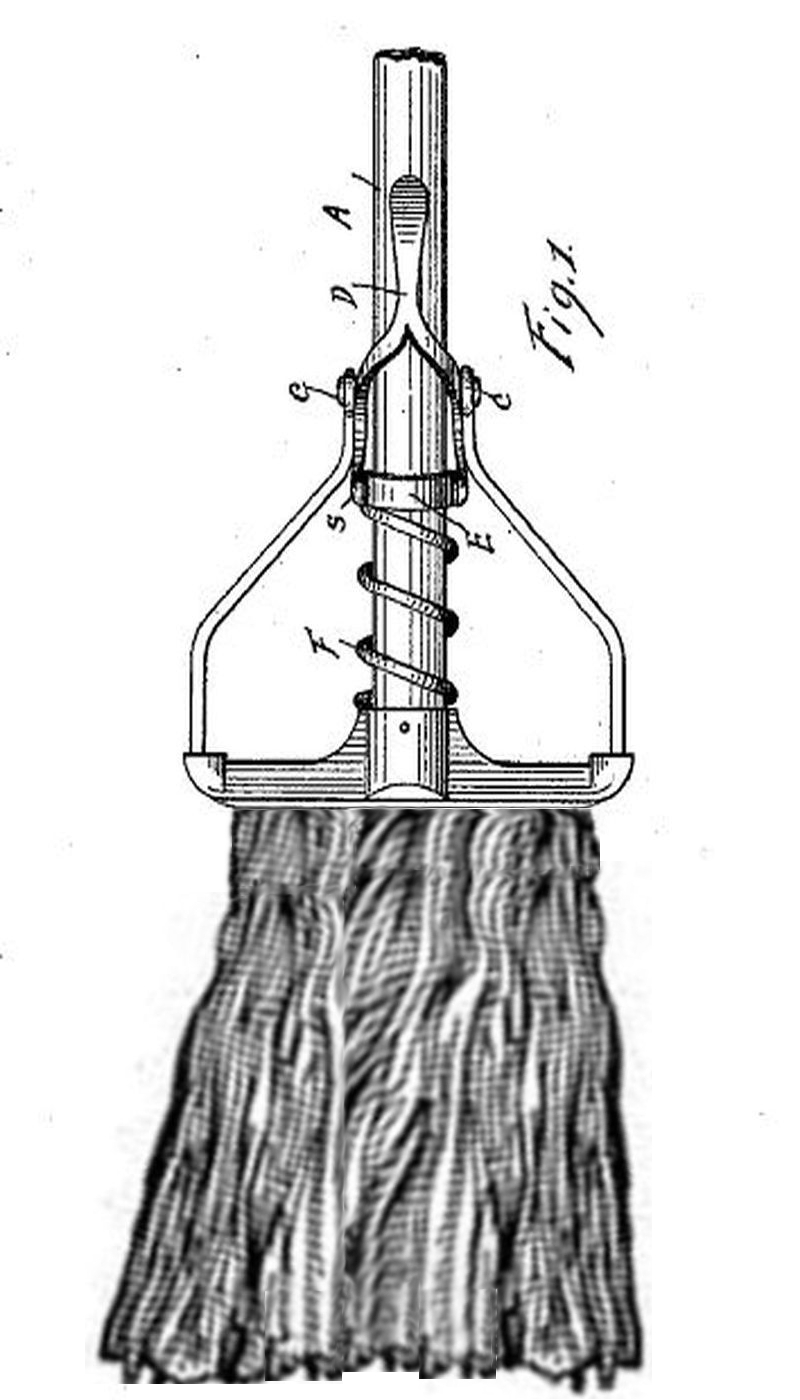 Recreation of T. W. Stewart 1893's mop (from a 1893 drawing)